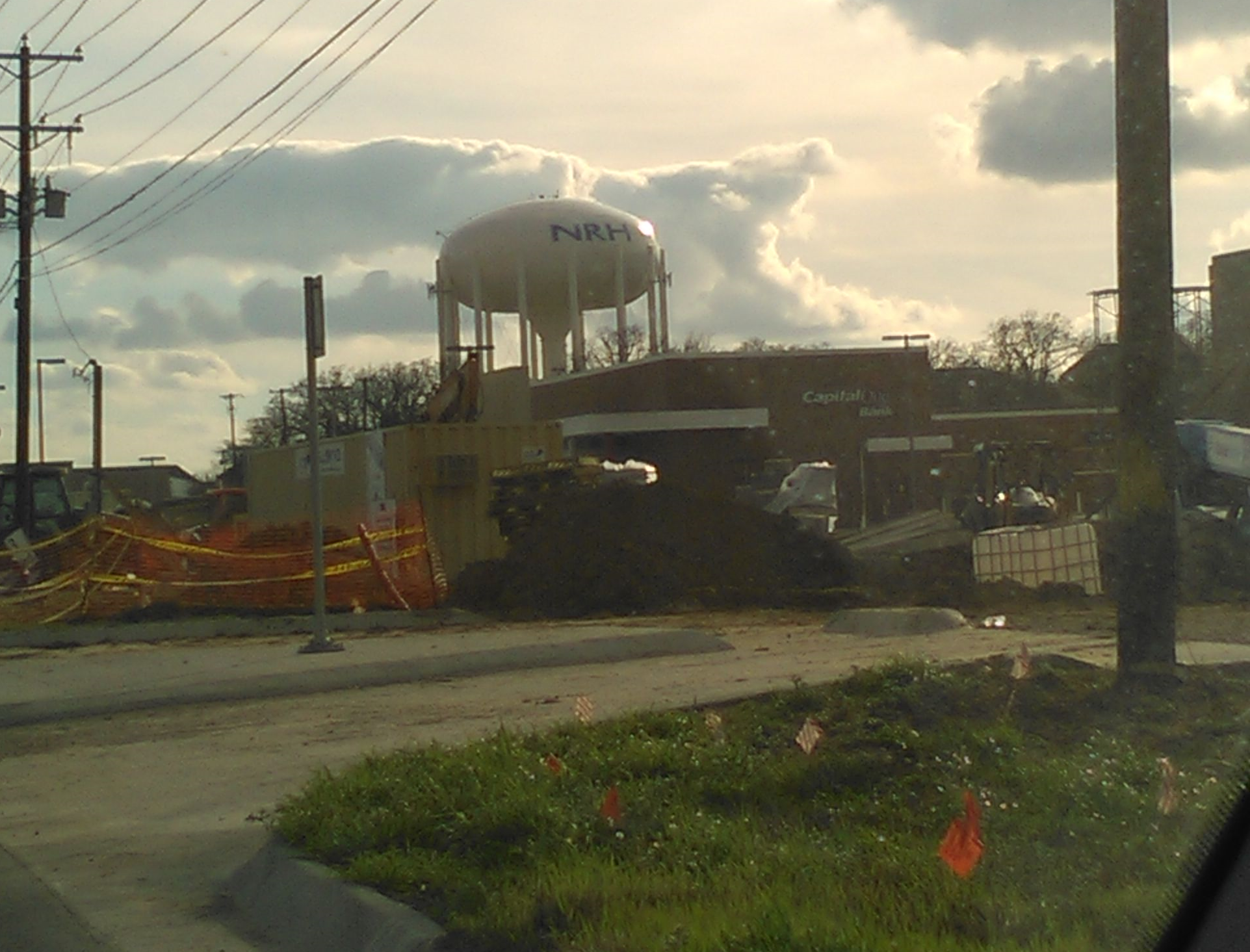 View of the North Richland Hills Water tower on Farm to Market Road 1938 (Davis Boulevard).